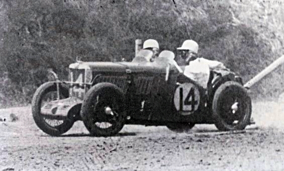 The MG J3 of Bernie Horsley contesting the 1935 Centenary 300